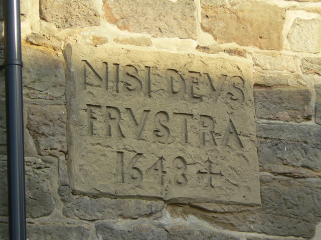 Inscribed stone. On the building seen in 1437225. The text loosely translates as "Without God, all is in vain". This is an allusion to Psalm 127, verse 1 - Unless the lord the city keep, the watchman waketh but in vain. The original Vulgate Latin text has Dominus, not Deus. The sharpness of the carving indicates that this is probably a modern 'restoration' of the original stone.